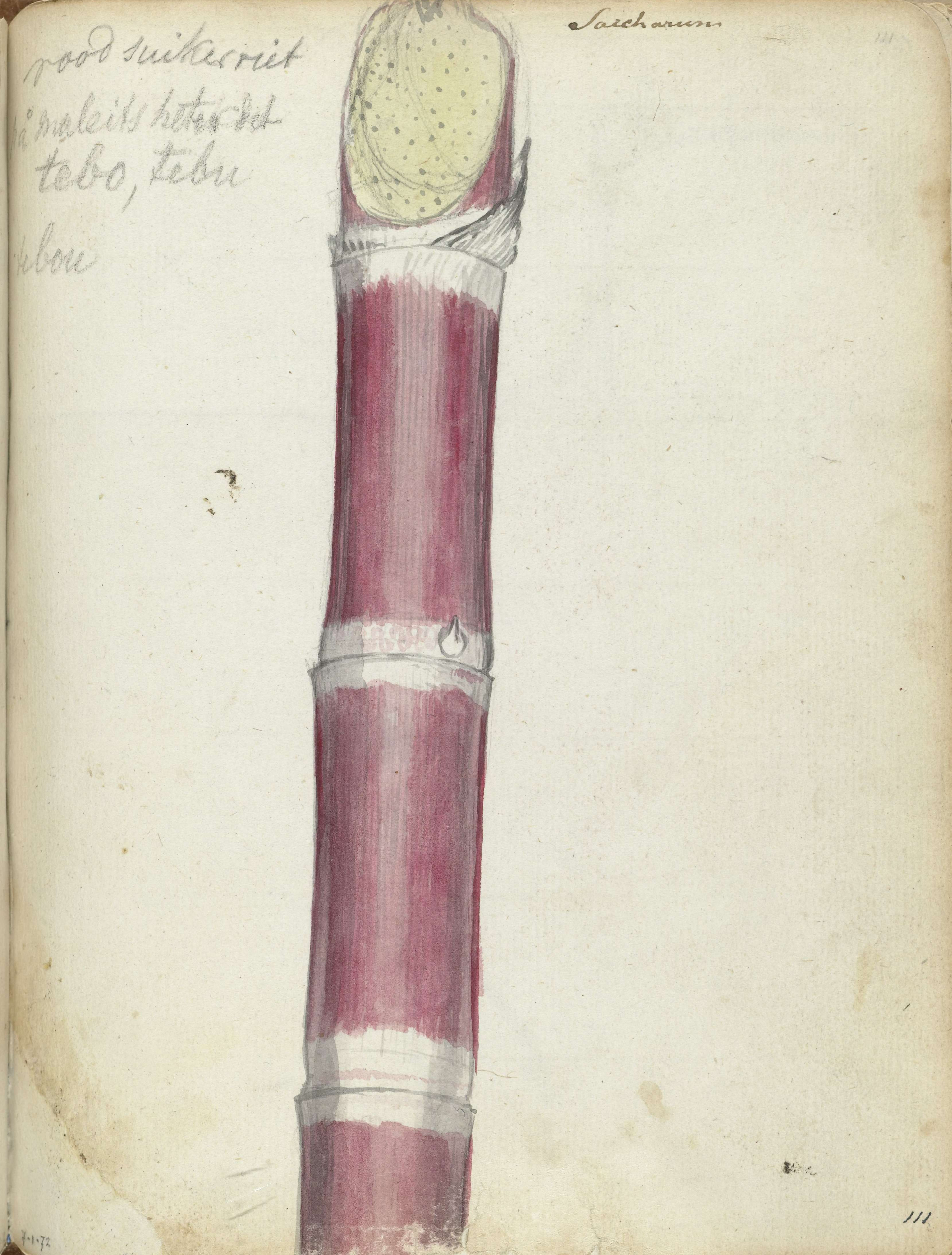 Sugarcane, Jan Brandes, 1779 - 1787 - Rijksmuseum